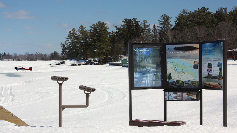 Voyageurs National Park, Minnesota, USA - Rainy Lake